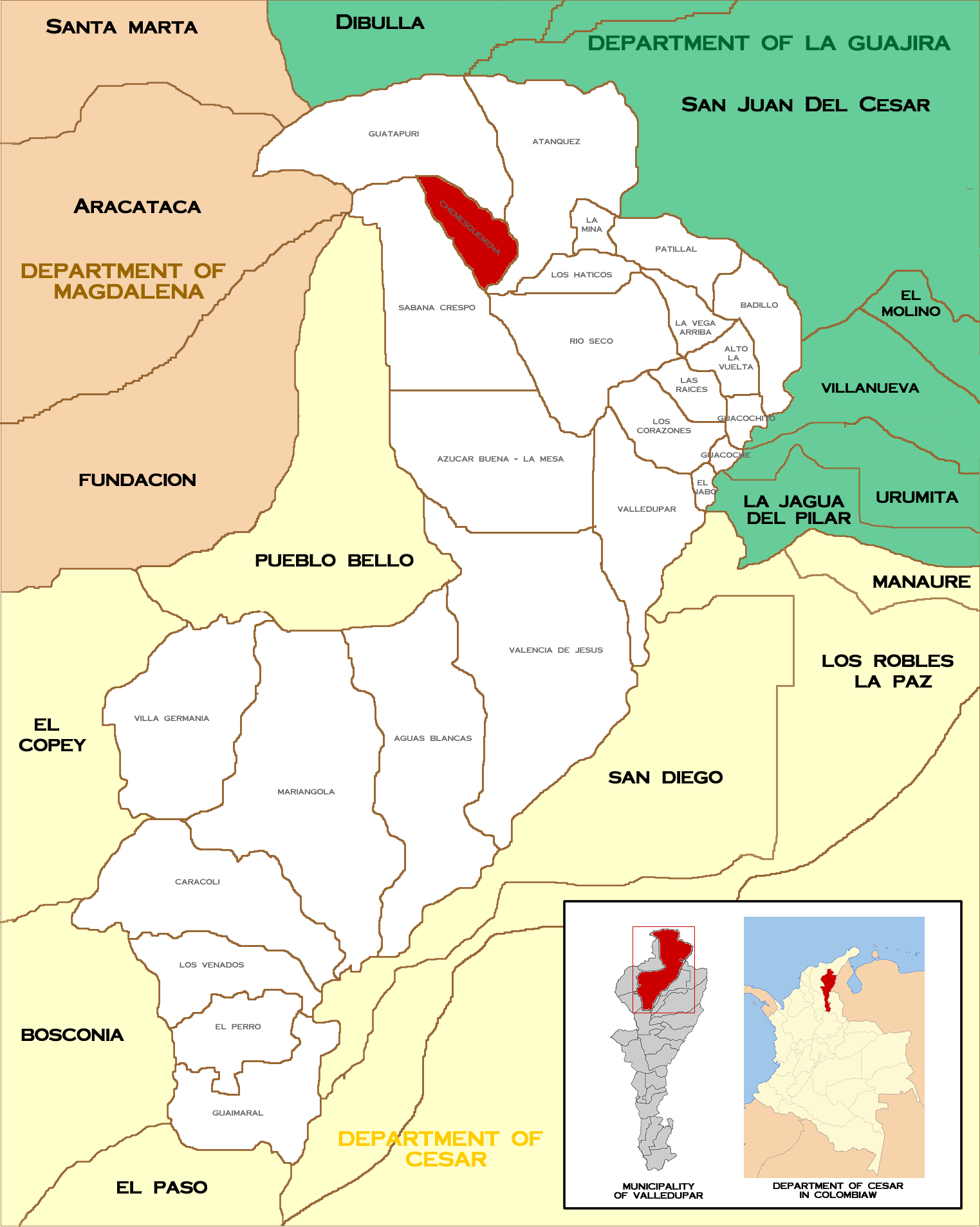 Map of Corregimientos of Valledupar, Chemesquemena